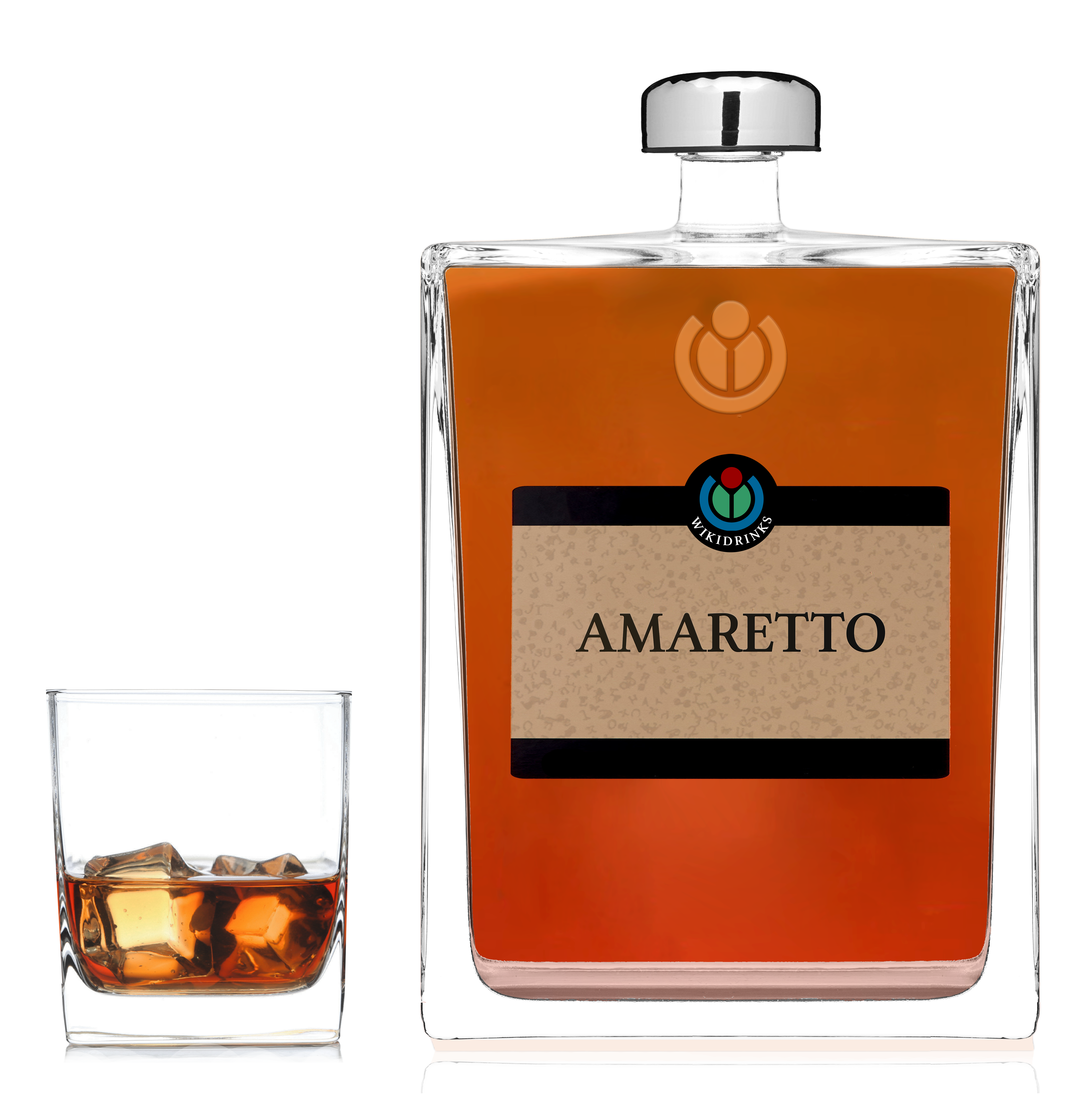 A fictional bottle and glass of Amaretto Аҧсшәа: Una bottiglia e un bicchiere di un'immaginaria marca di Amaretto